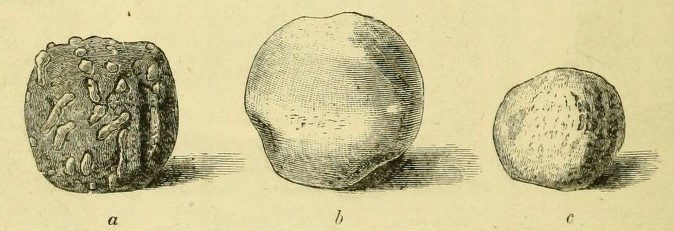 a Coralline ball b proposed Brain Ball c proposed worn Brain Ball p.62 in Discovery of the tomb of Ollamh Fodhla Ireland's famous monarch and law-maker upwards of three thousand years ago